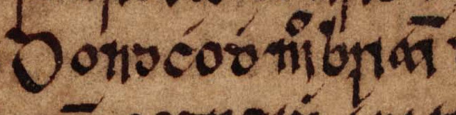 An excerpt from folio 18r of Oxford Bodleian Library MS Rawlinson B 488 (the Annals of Tigernach): "Dondchod mac Briain". The excerpt concerns Donnchad mac Briain, King of Munster (died 1064).